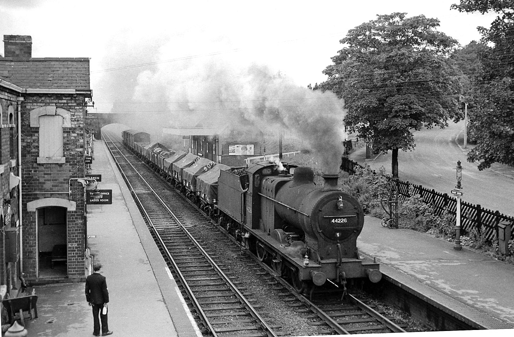 Barnt Green Station, with an Up freight. View SW, towards Bromsgrove, Cheltenham, Gloucester and Bristol; ex-Midland Birmingham (New Street) - Bristol main line. The branch to Redditch, Evesham and Ashchurch turned off sharply to the left - off shot. The train is a typical Class D freight, hauled by one of the ubiquitous LMS 4F 0-6-0s, No. 44226